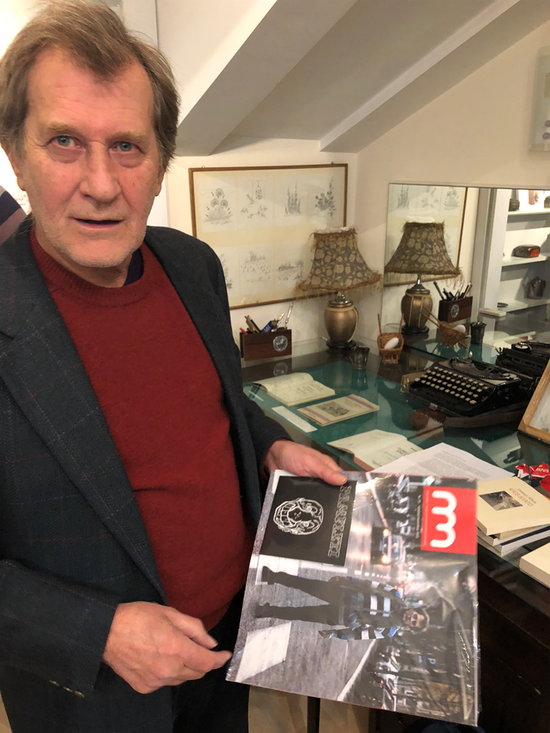 Jovica Aćin in the Museum of Serbian Literature in Belgrade, Serbia Српски (ћирилица): Јовица Аћин у Музеју српске књижевности у Београду, 2018.